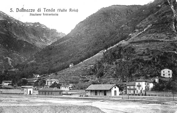 Railway station of San Dalmazzo di Tenda (Italy) now Saint-Dalmas-de-Tende (France) in 1920s.